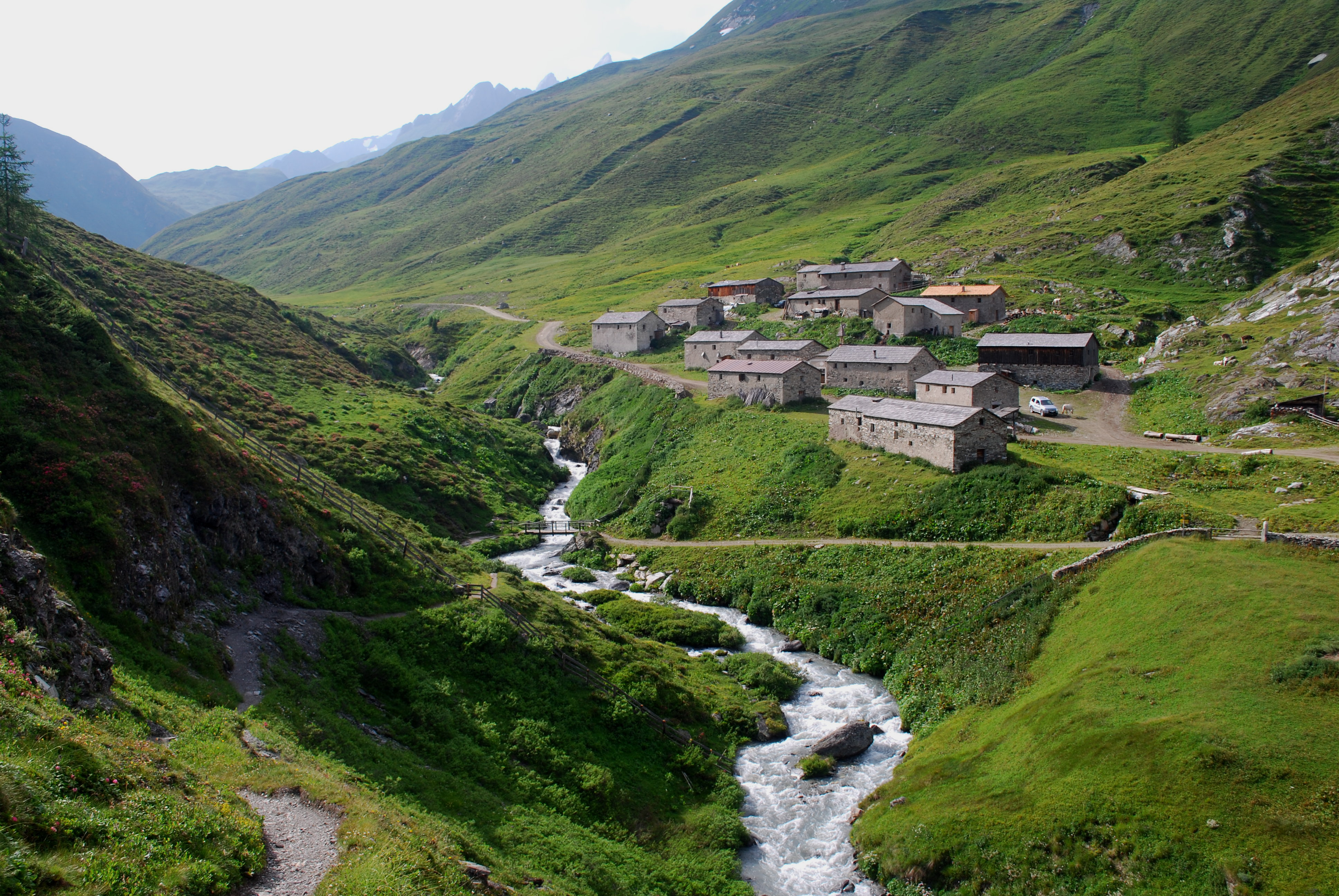 Jagdhausalm / Tyrol